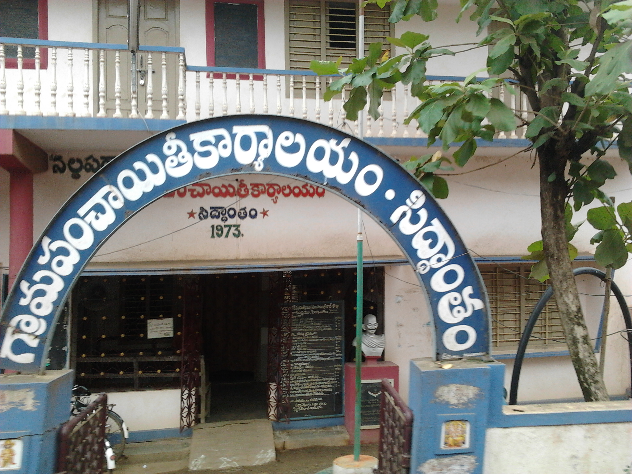 Siddantam- A.P. Village of Westgodavari District